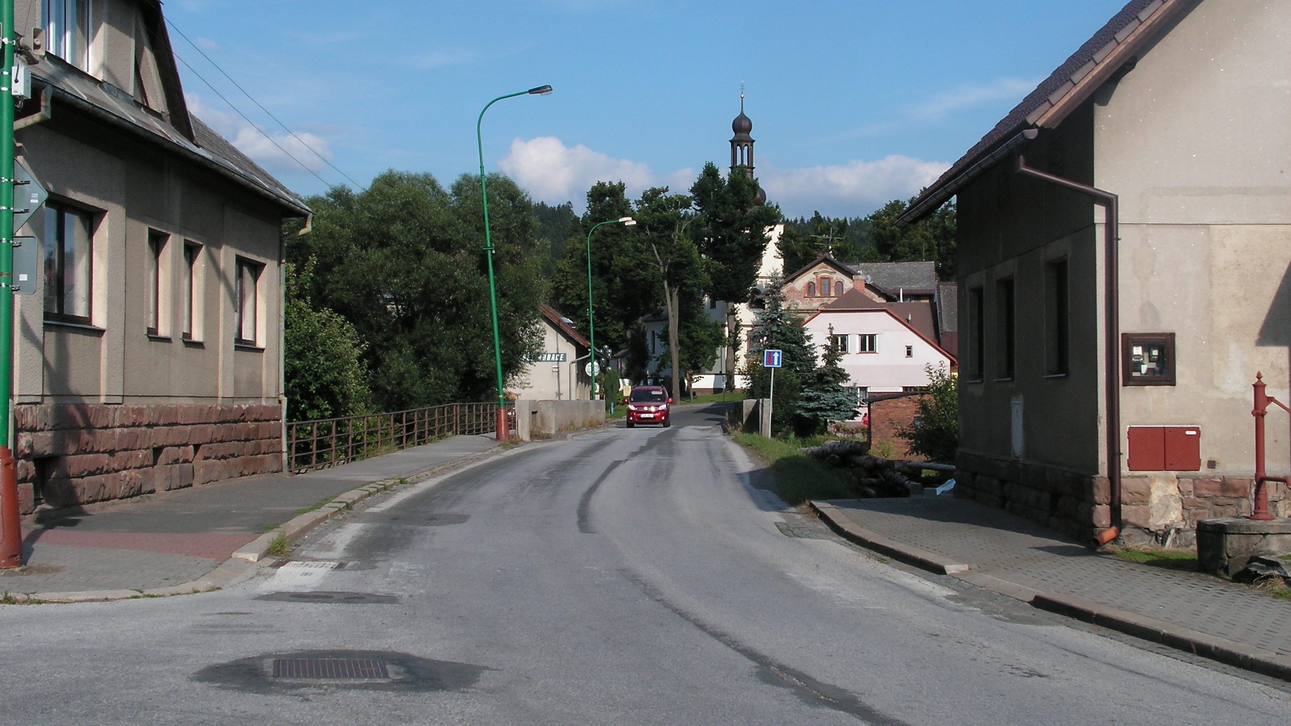 Košťálov - road II/283 crossing the Oleška river